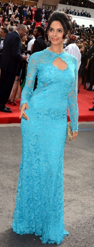 Mallika Sherawat at the Cannes Film Festival